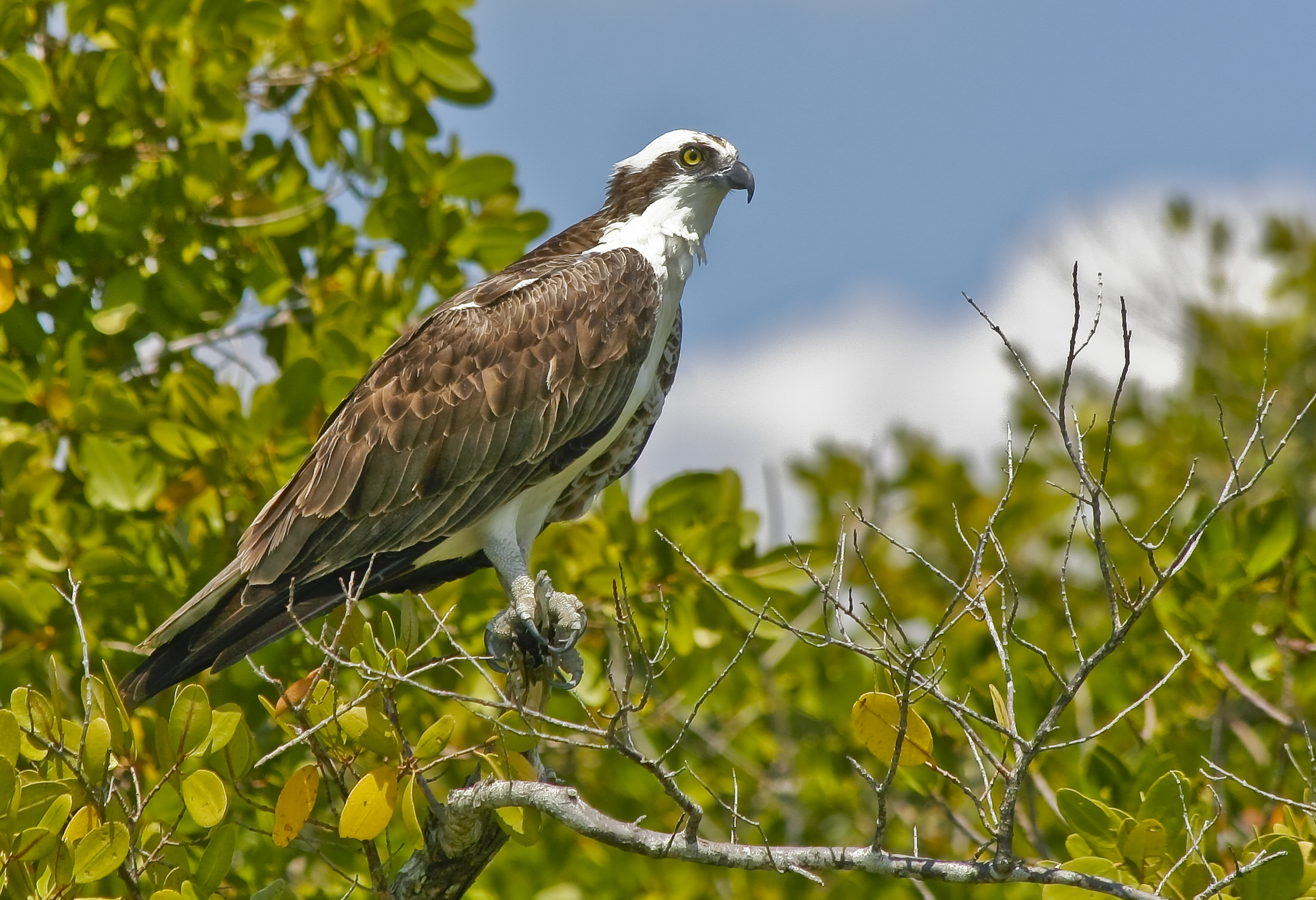 Osprey in Everglades National Park.